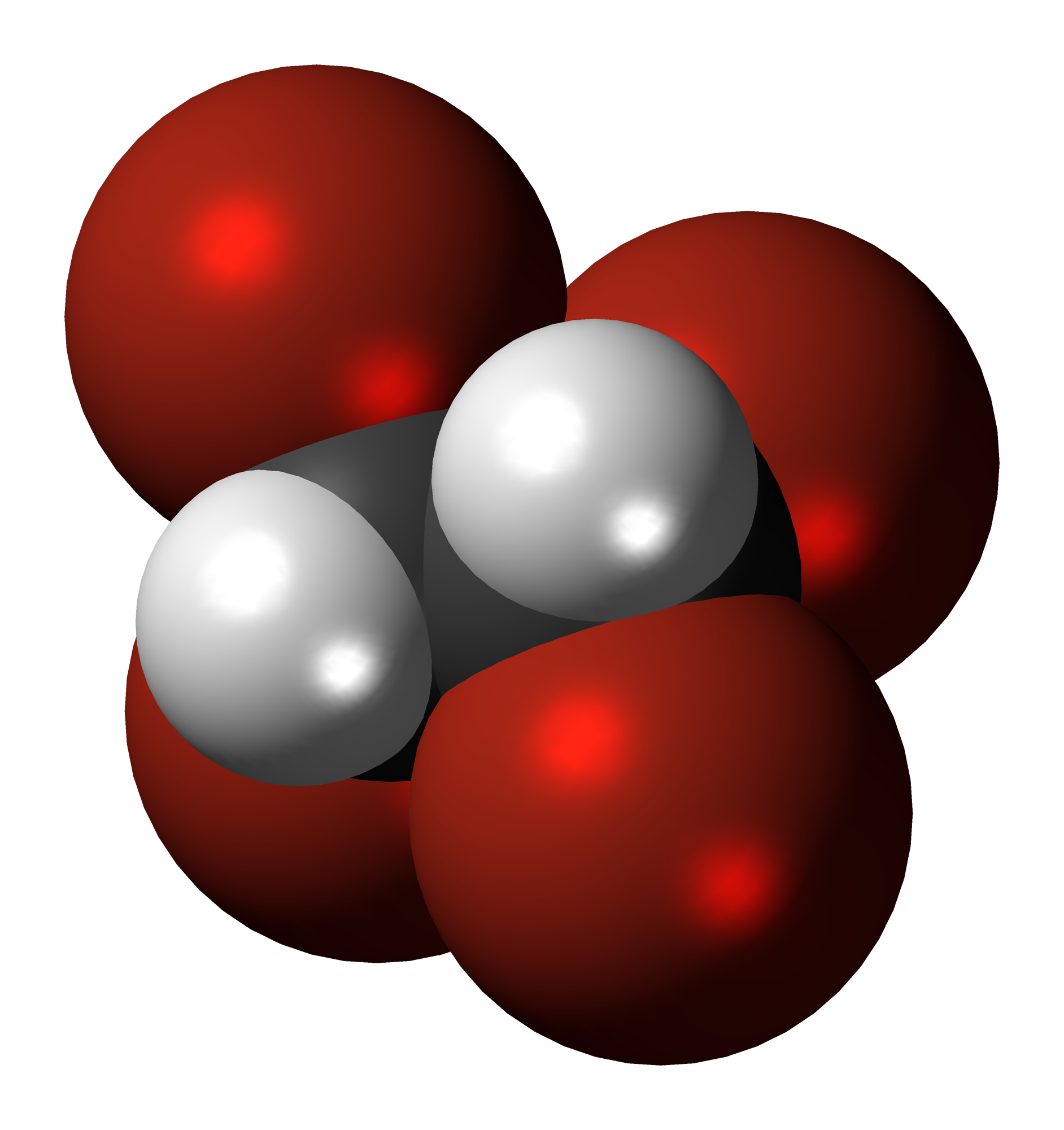 Space-filling model of the 1,1,2,2-tetrabromoethane molecule, an organobromide. Colour code: Carbon, C: black Hydrogen, H: white Bromine, Br: red-brown